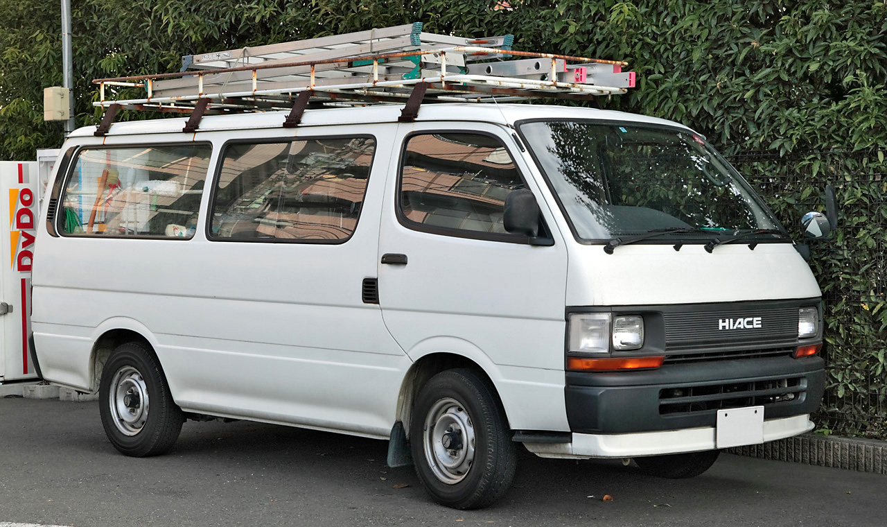 Toyota Hiace 100 long van 2.0 DX